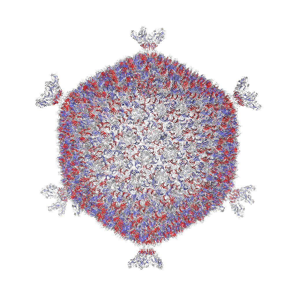 The assembled capsid of bacteriophage PM2, composed of the major capsid proteins P2 and P3. P2 possesses a canonical double jelly roll fold; here the two distinct jelly roll domains are colored red and blue, with the remainder of the proteins shown in white. The topology and connectivity in each jelly roll is identical to that illustrated in File:4oq9 chainA jellyroll.png. The component pseudohexameric P2 trimers are illustrated in File:2w0c_trimer.png and the individual P2 monomers in File:2w0c_monomer.png. Rendered from PDB ID 2W0C: Abrescia NG, Grimes JM, Kivelä HM, Assenberg R, Sutton GC, Butcher SJ, Bamford JK, Bamford DH, Stuart DI. Insights into virus evolution and membrane biogenesis from the structure of the marine lipid-containing bacteriophage PM2. Molecular cell. 2008 Sep 5;31(5):749-61. DOI 10.1016/j.molcel.2008.06.026.